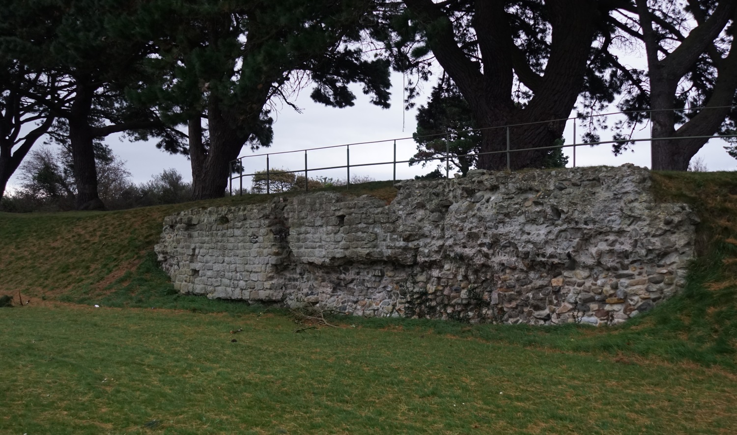 Segontium Roman Fort, Caernarfon, Wales. Northern wall.